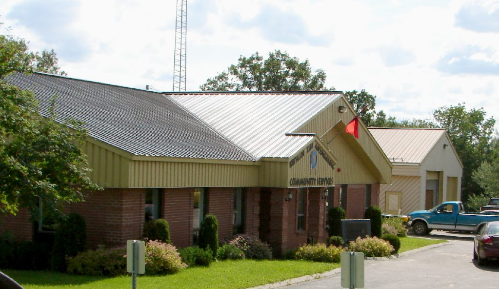 Kitigan Zibi Reserve, Quebec, Canada